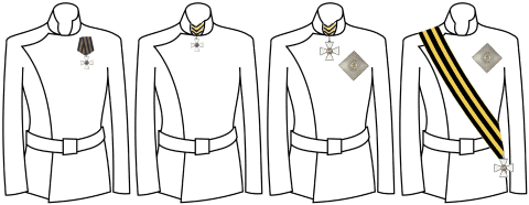 Order of Saint George (Russia)